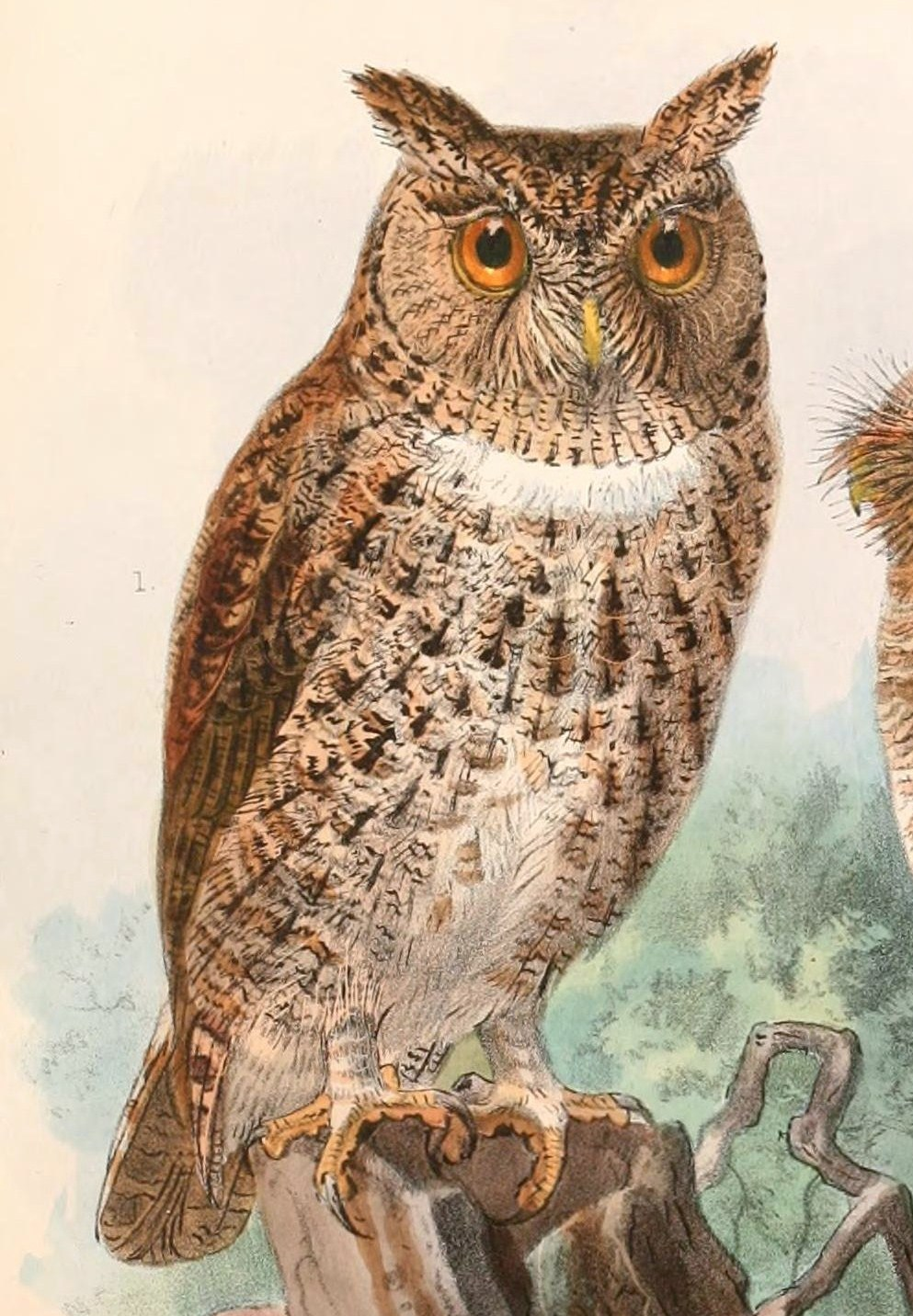 « Pisorhina sylvicola » = Otus silvicola (Wallace's Scops Owl)